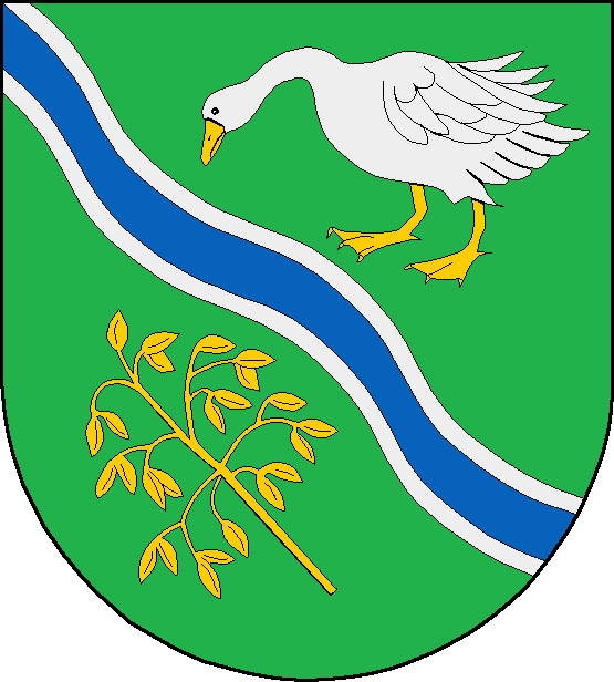 Coat of arms of the municipality Krems II in Schleswig-Holstein, Germany.